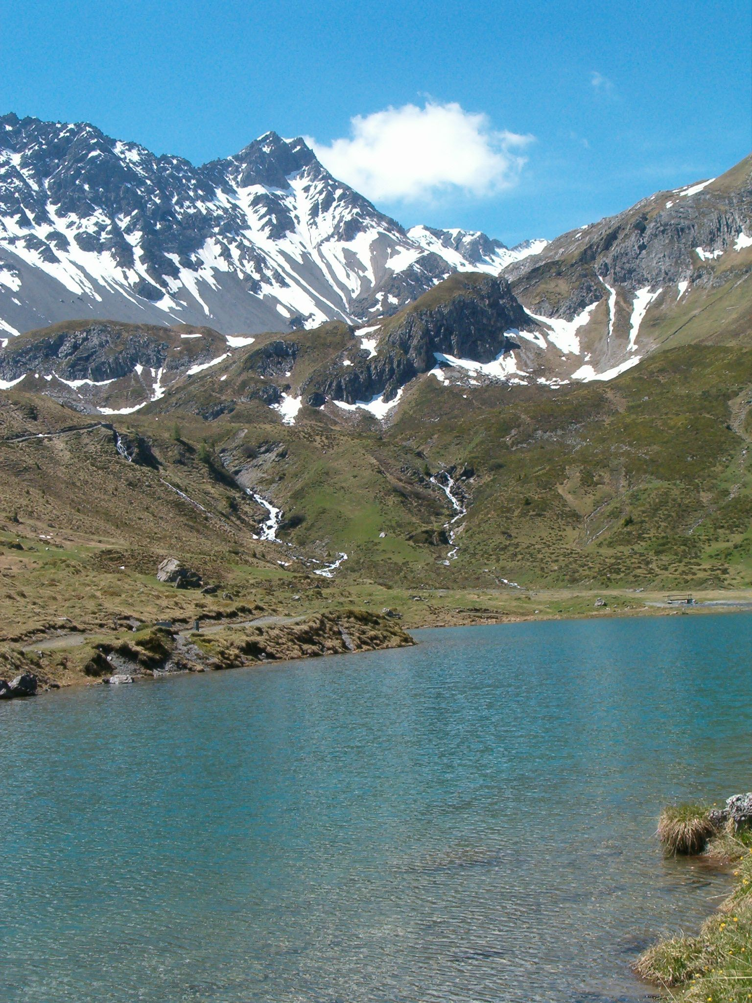 Erzhorn with Schwelli Lake, Arosa/Switzerland